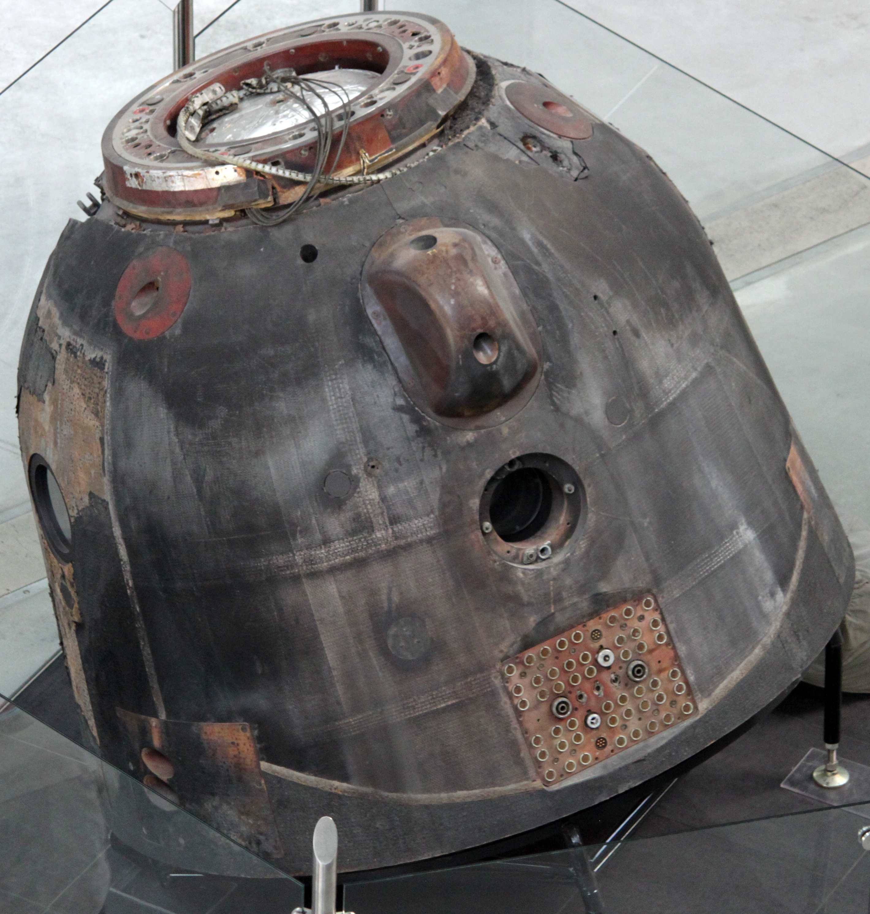 Soyuz-Capsule in the Technikmuseum Speyer